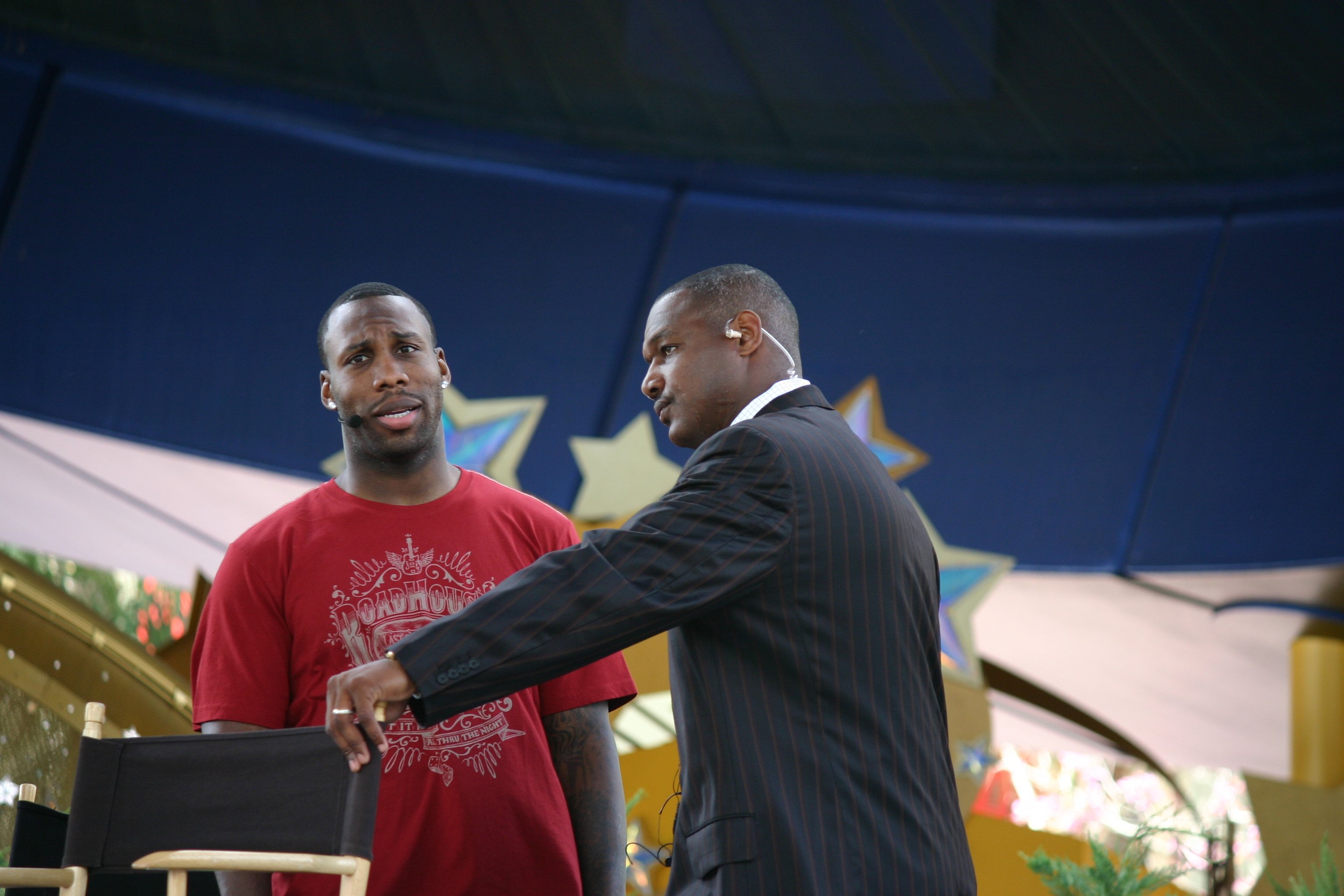 Anquan Boldin on set for an interview on ESPN First Take broadcast live from the Sorcerer's Hat Stage on Friday, March 4, 2011 as part of ESPN the Weekend